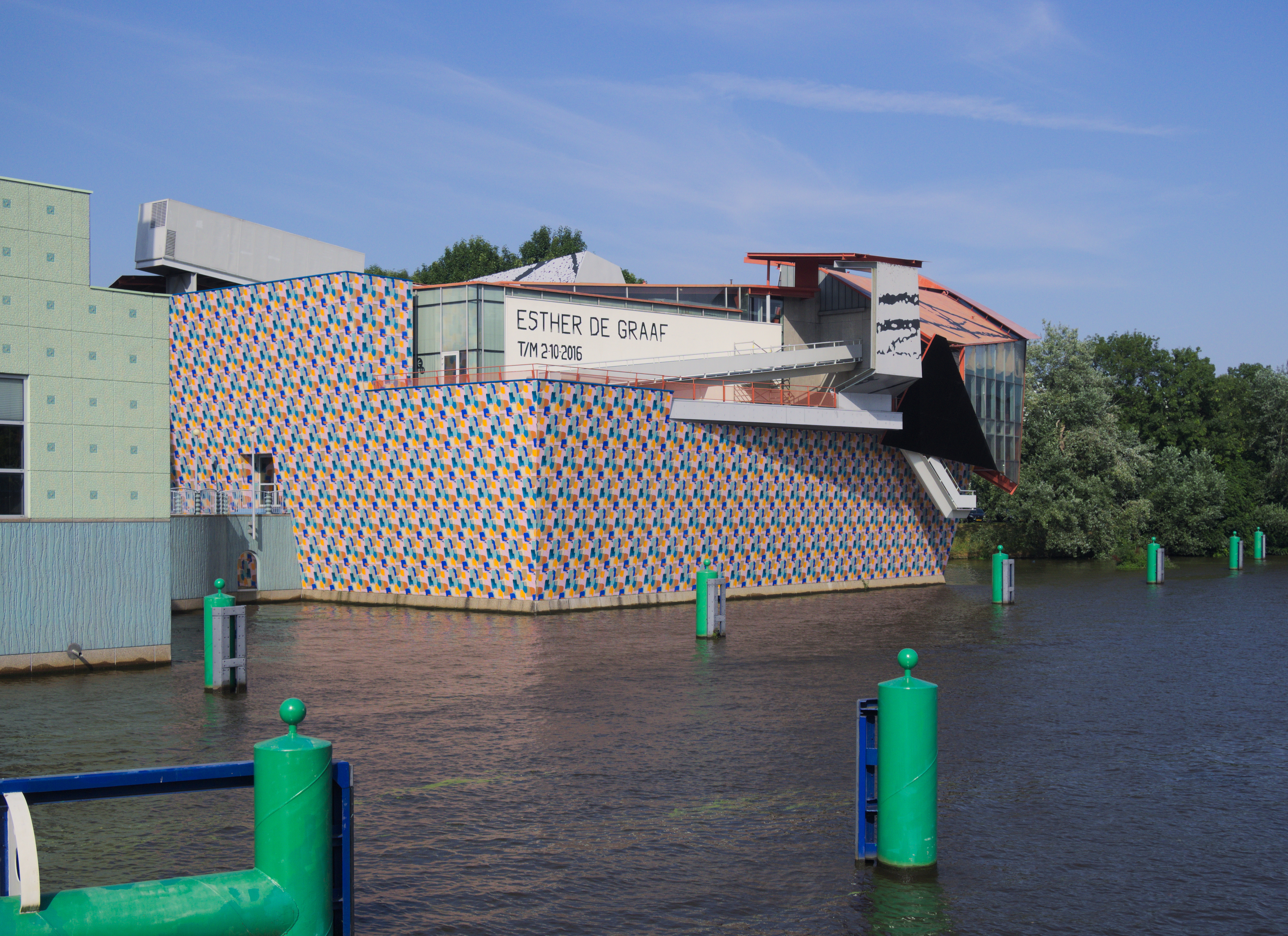 The east end of Groninger Museum.